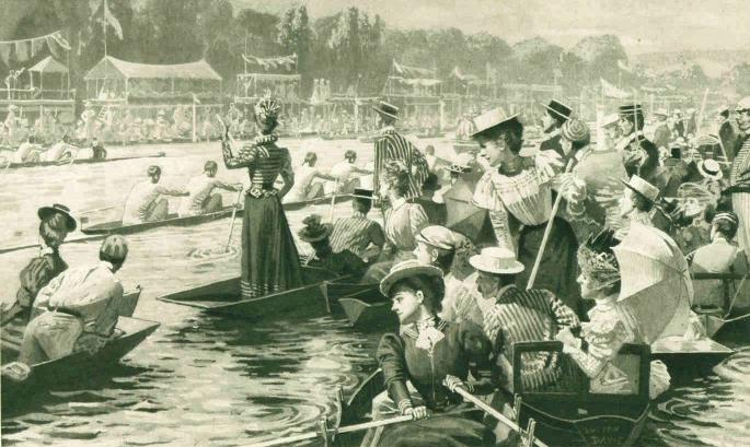 Photogravure entitled Rowing published 1898 by Swan Electric Engraving Co., from a drawing by Lucien Davis (1860 - 1941)